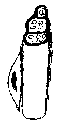 Sieve cell and companion cell of phloem